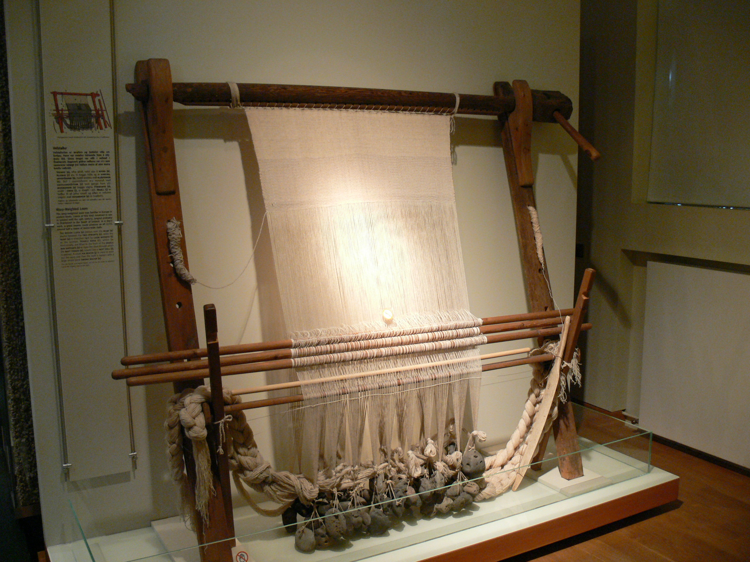 National Museum of Iceland, Reykjavik. A warp-weighted loom, in Iceland in use till the 19th century.